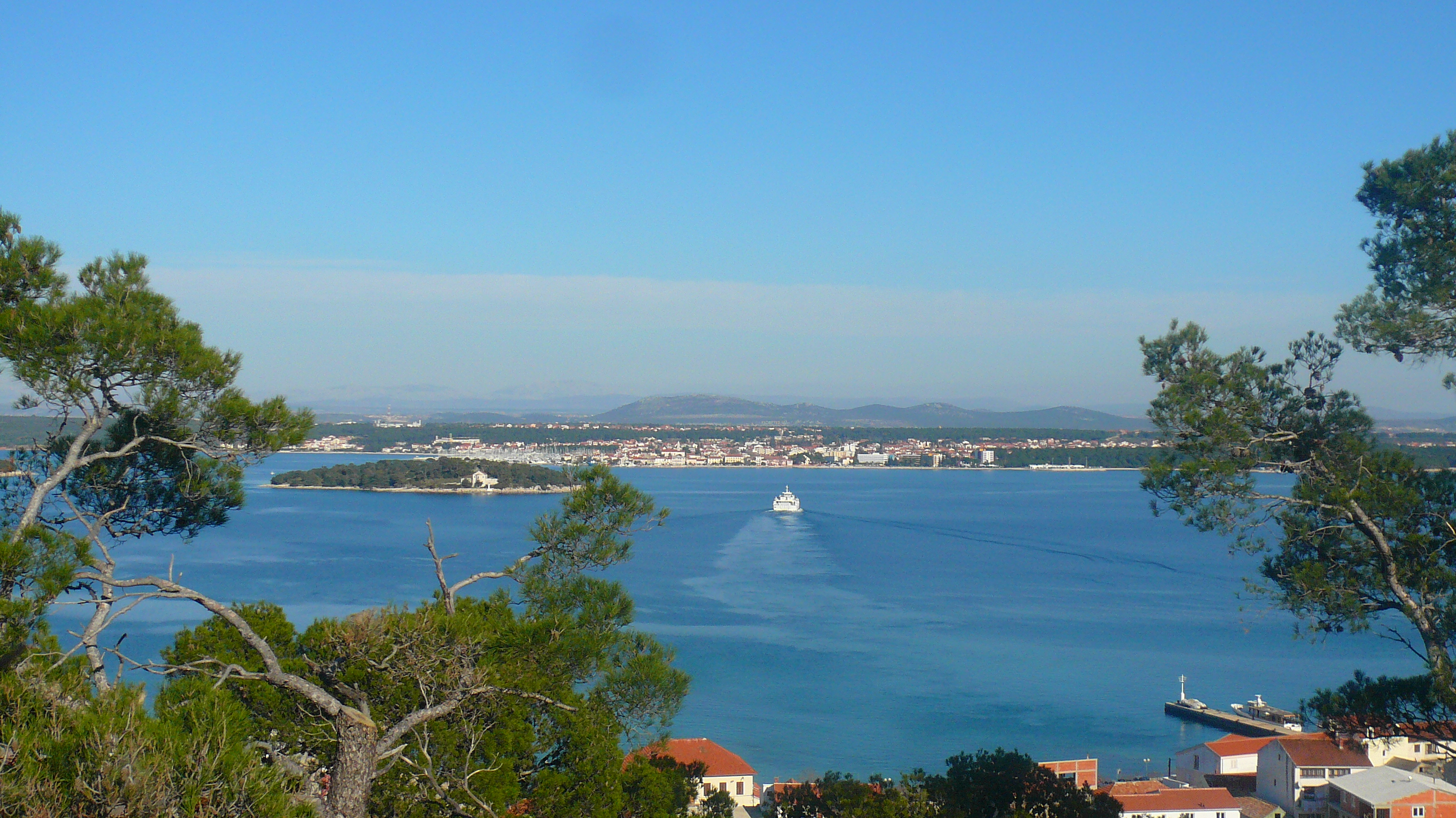 Trip to Croatia-Day 3-Zadar-Pasman island-Tkon